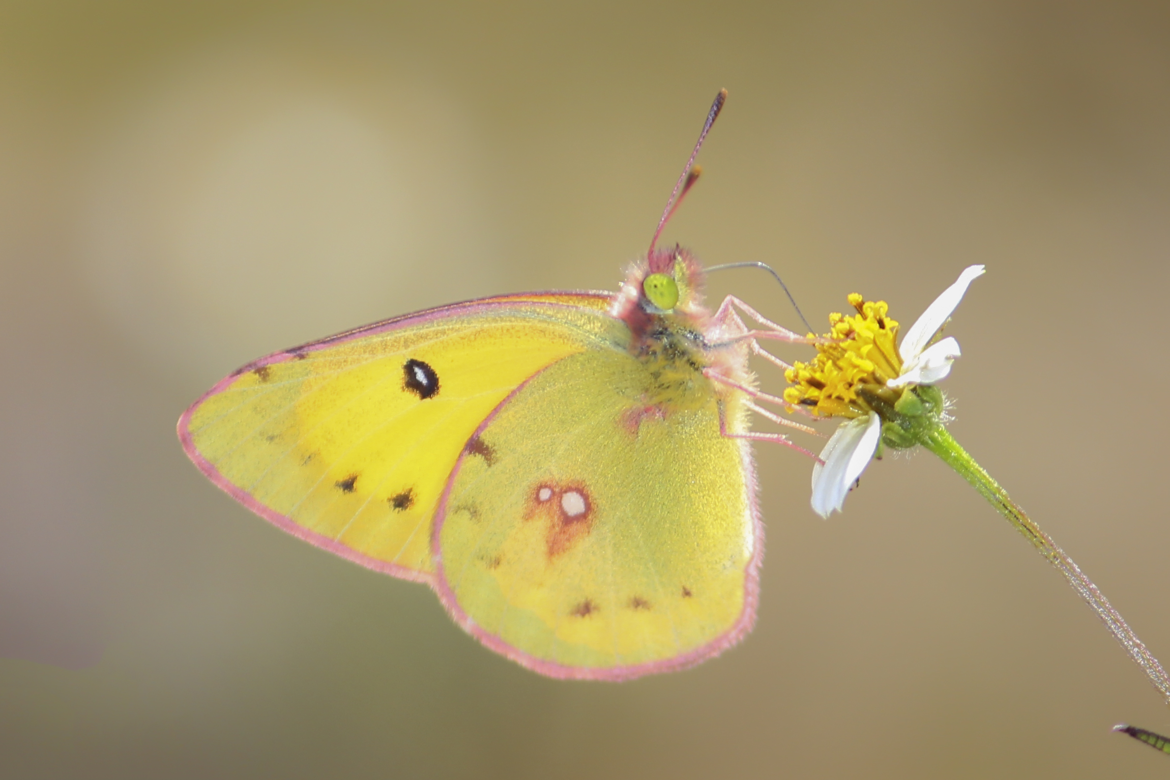 Close wing nectaring of Colias fieldii Ménétriés, 1855 – Dark Clouded Yellow on Bidens pilosa. Subspecies: Colias fieldii fieldii Ménétriés, 1855 – Himalayan Dark Clouded Yellow অসমীয়া: পাখি বন্ধ অৱস্থাত ফুলৰ মধু পান কৰি থকা Colias fieldii Ménétriés, 1855 – Dark Clouded Yellow পখিলা । এই নমুনাটো Colias fieldii fieldii Ménétriés, 1855 – Himalayan Dark Clouded Yellow উপ-প্ৰজাতিৰ অন্তৰ্গত ।